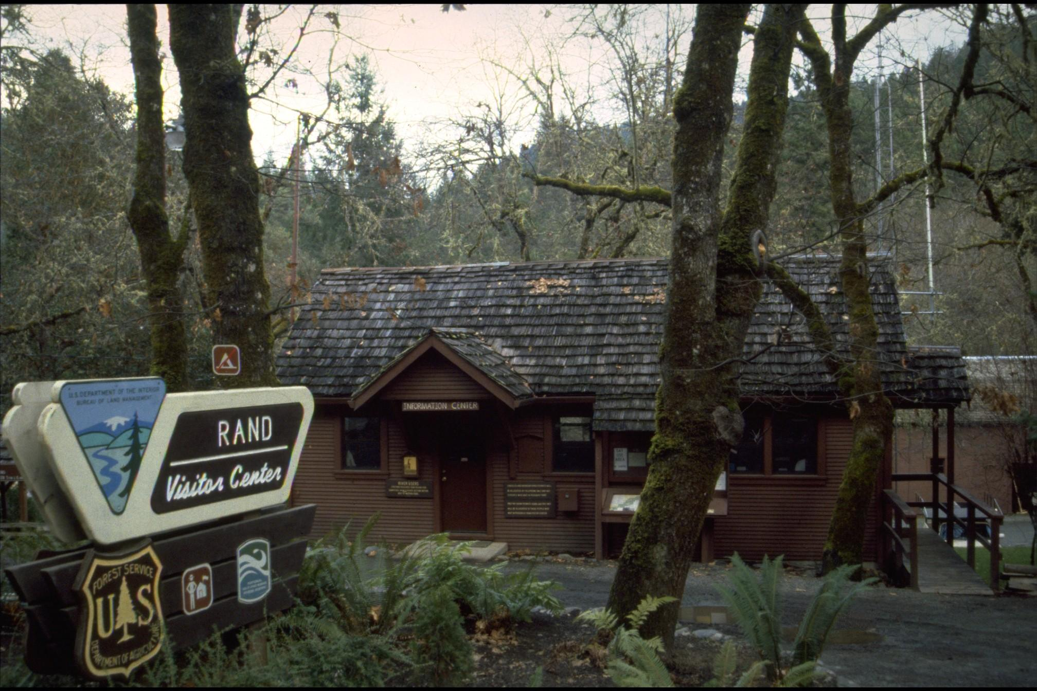 Smullin Visitor Center at the historic Rand Ranger Station near Galice, Oregon